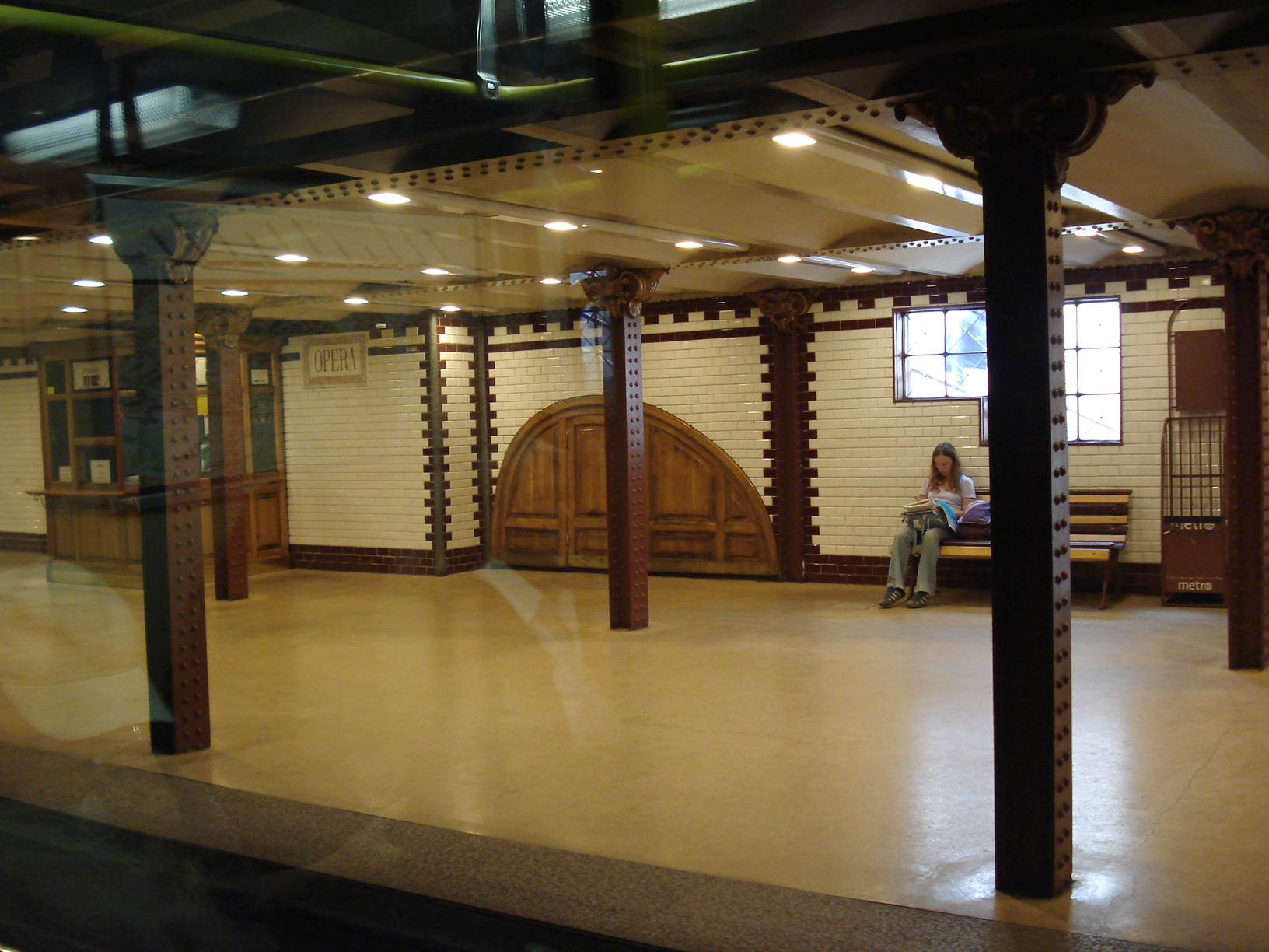 The Opera Station, Budapest Metro, M1